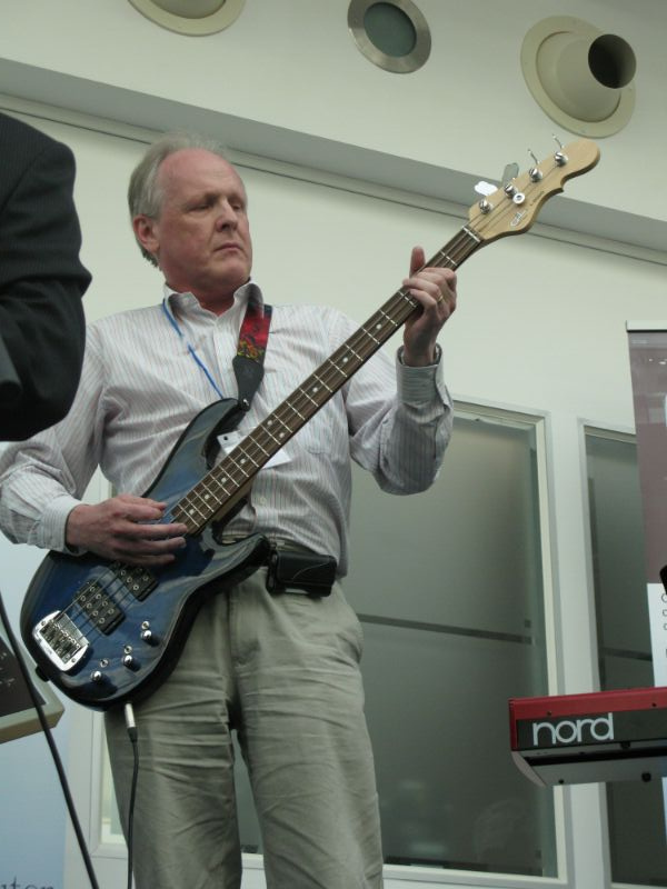 Steve Furber as guest bassist with The Suits at the BBC Micro 30th anniversary in 2012